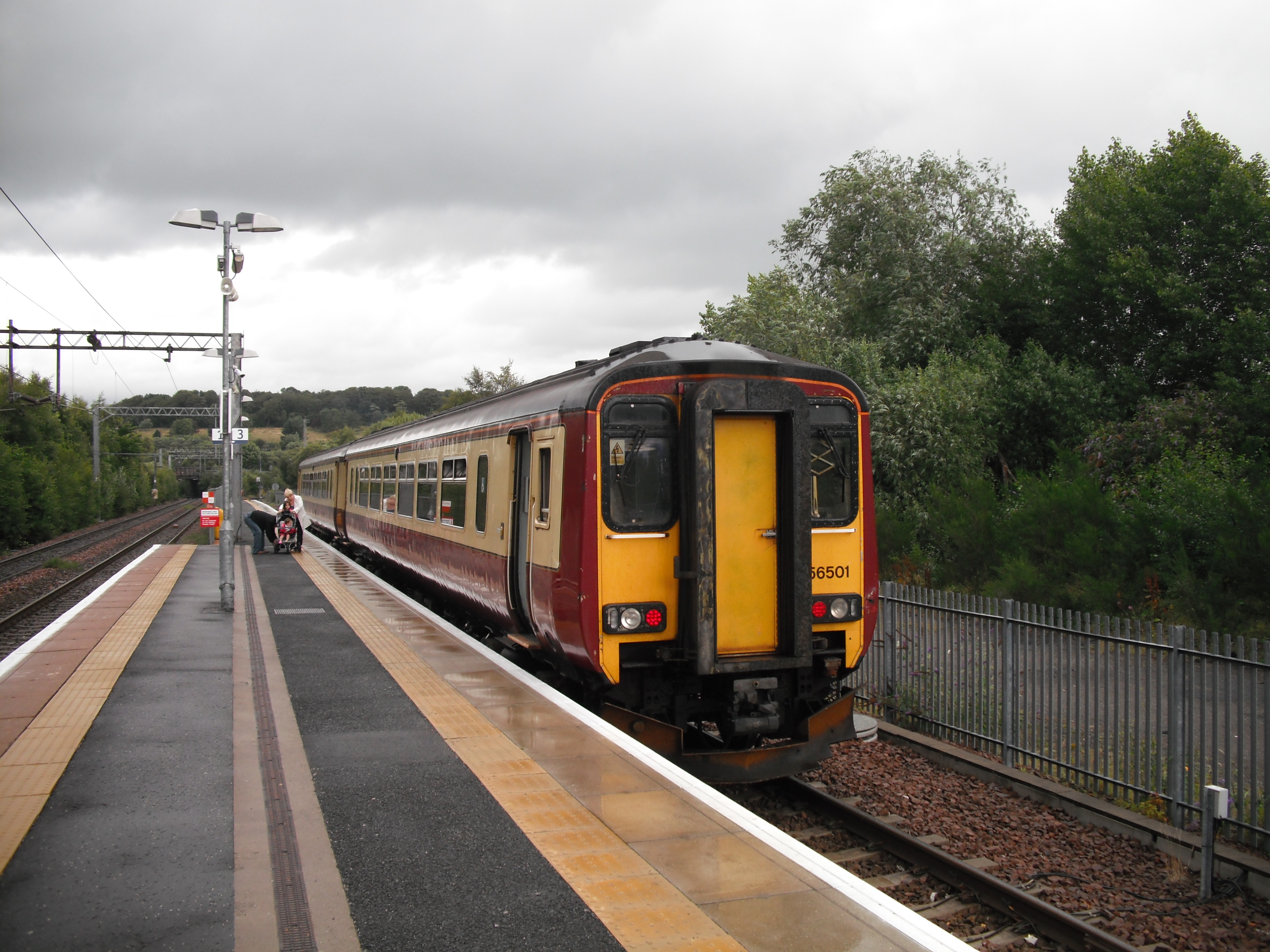 Class 156 at Anniesland